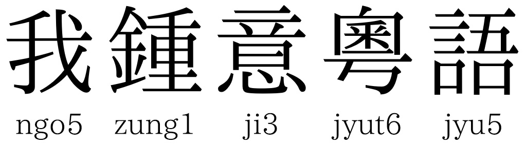 Example of use of the romanization system for Cantonese Jyutping and related dialects.